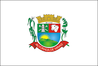 Flags of the city of Alvorada de Minas, Minas Gerais, Brazil.